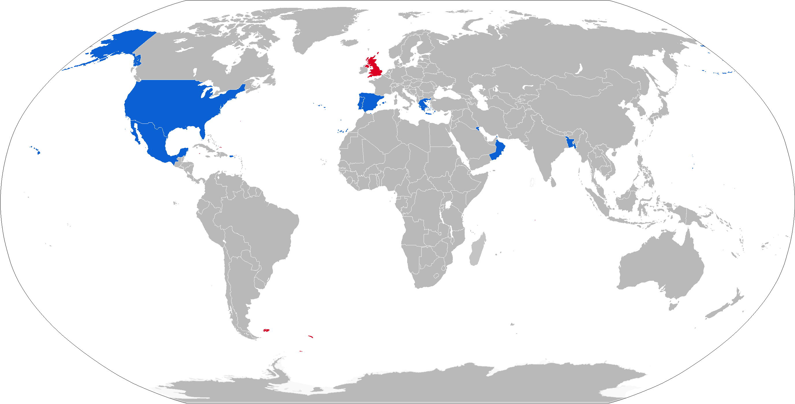 Map with Light Strike Vehicle operators in blue with former operators in red